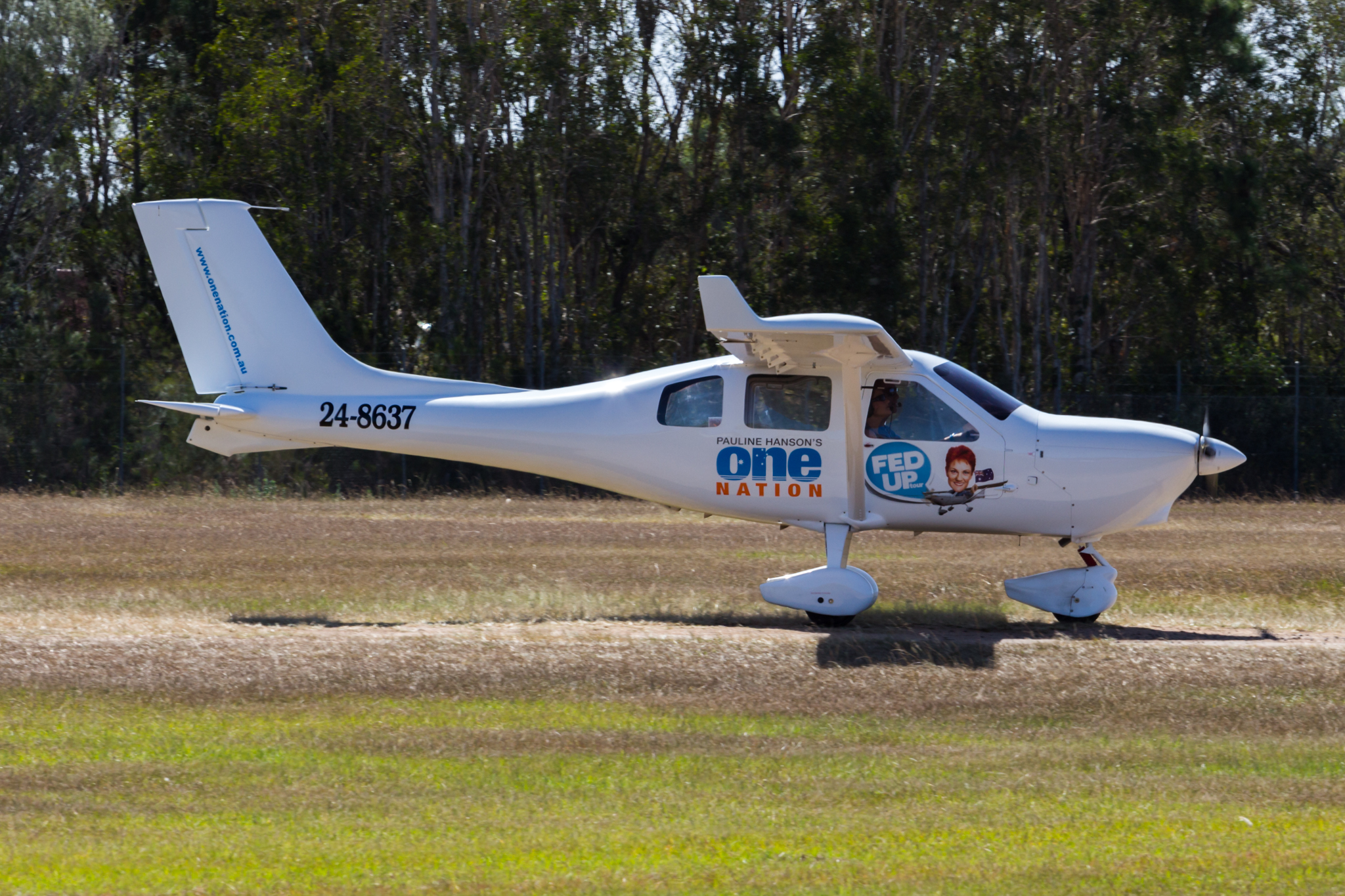 Pauline Hanson in a Jabiru J230 (24-8637) at Caboolture Airfield for the Caboolture Air Show